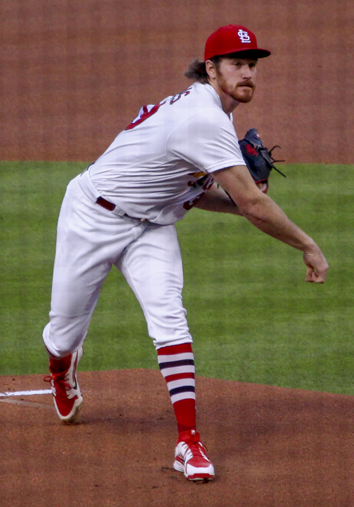 Miles Mikolas pitching for the St.Louis Cardinals in 2018.